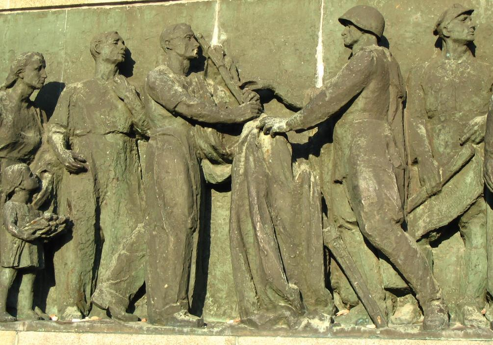 Detail from the relief from the left hand side of the main photograph of the monument.